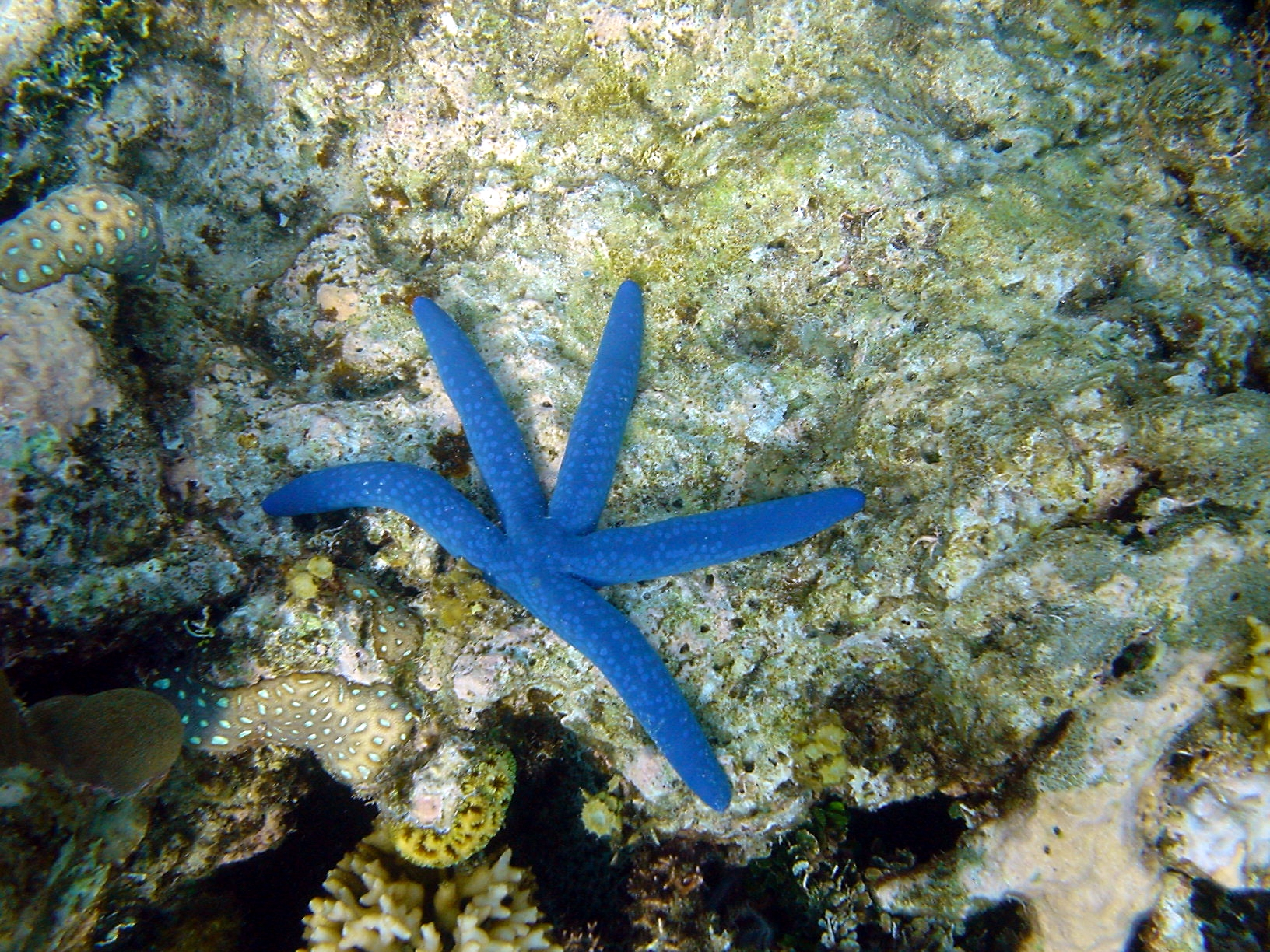 Blue starfish, Linckia laevigata Papua New Guinea